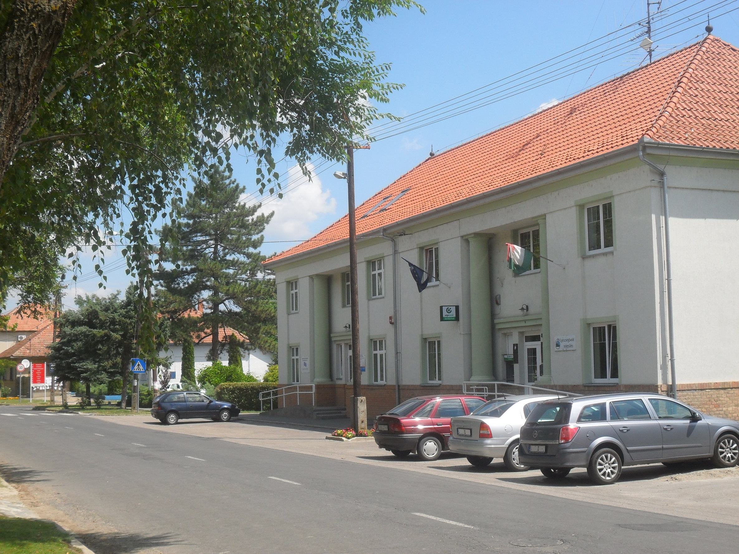 Röszke Village Council Hall